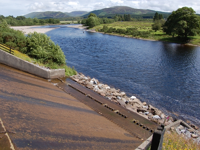 Weir from the Caledonian Canal This weir carries overflow from the canal (out of shot to the left) down to the River Lochy.